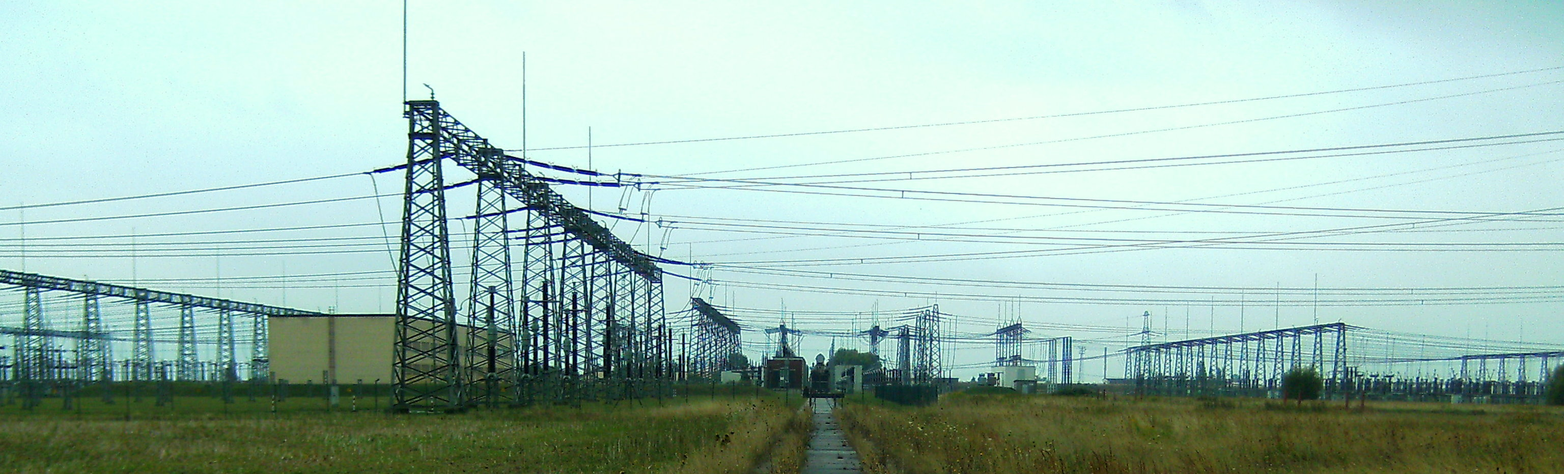 This way was built for transporting heavy components for the canceled HVDC-back-to-back station Wolmirstedt.